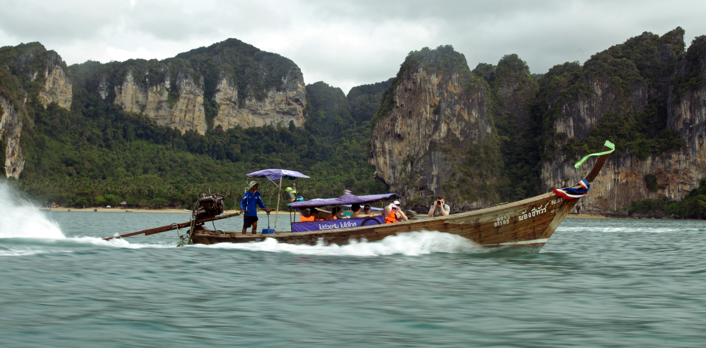 Long-tail boat cruising in Raylay Bay. The beach on background is Tonsai beach.